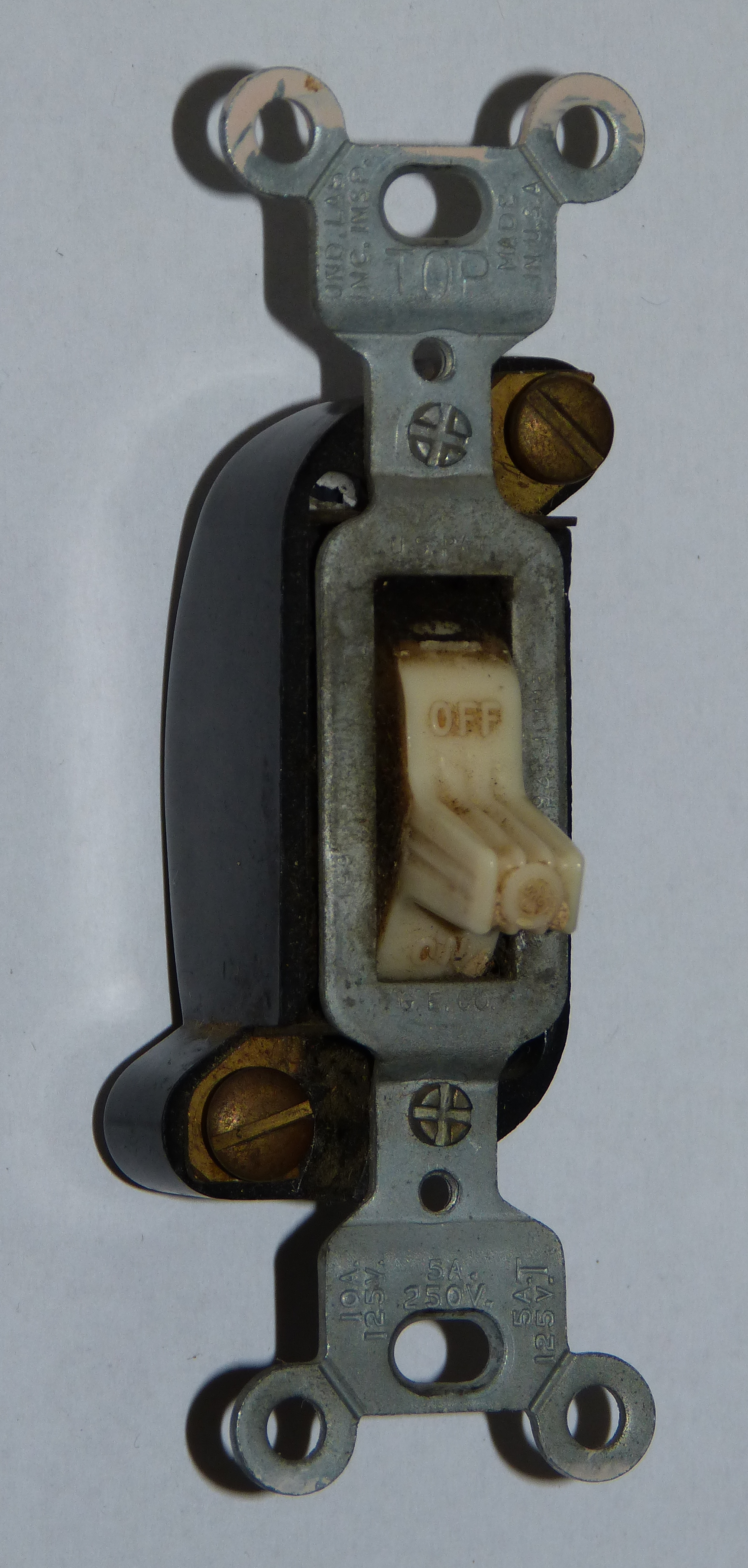 A General Electric toggle light switch of the silent operation type. The silent operation aspect allows the switch to be operated without noticeable clicks between "on" and "off". Although the switch is described as a "light switch," it would likely be classified under the US NEC (National Electrical Code) as an AC/DC general use snap switch (NEC 404.14(B)) with a T rating (note the "T" on the lower metal yoke.) For more information, see Residential Electrical Wiring by Ray Mullin and Phil Simmons, Cengage Learning, 2014, pages 166-167.